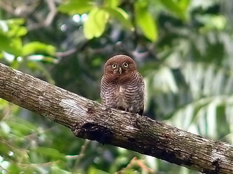 Being the height of the monsoons the light was poor but yet I managed to get a few good shots. The bark-coloured plumage and low profile makes them hard to detect. As their name suggests, they are not usually found near human habitation. They are partial to teak and mixed forests.